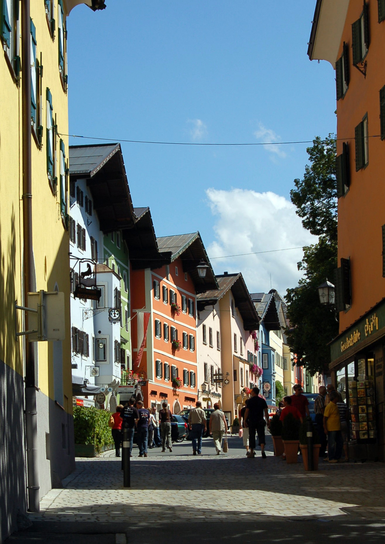 Kitzbühel, Tyrol - Vorderstadt (historic centre)